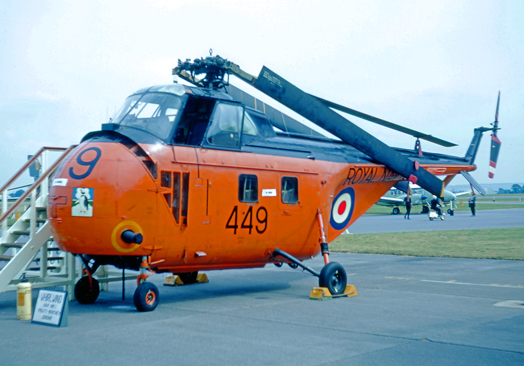 Westland Whirlwind HAR.1 XA868 coded PR-449 based on HMS Protector, at Lee-on-Solent in 1969.